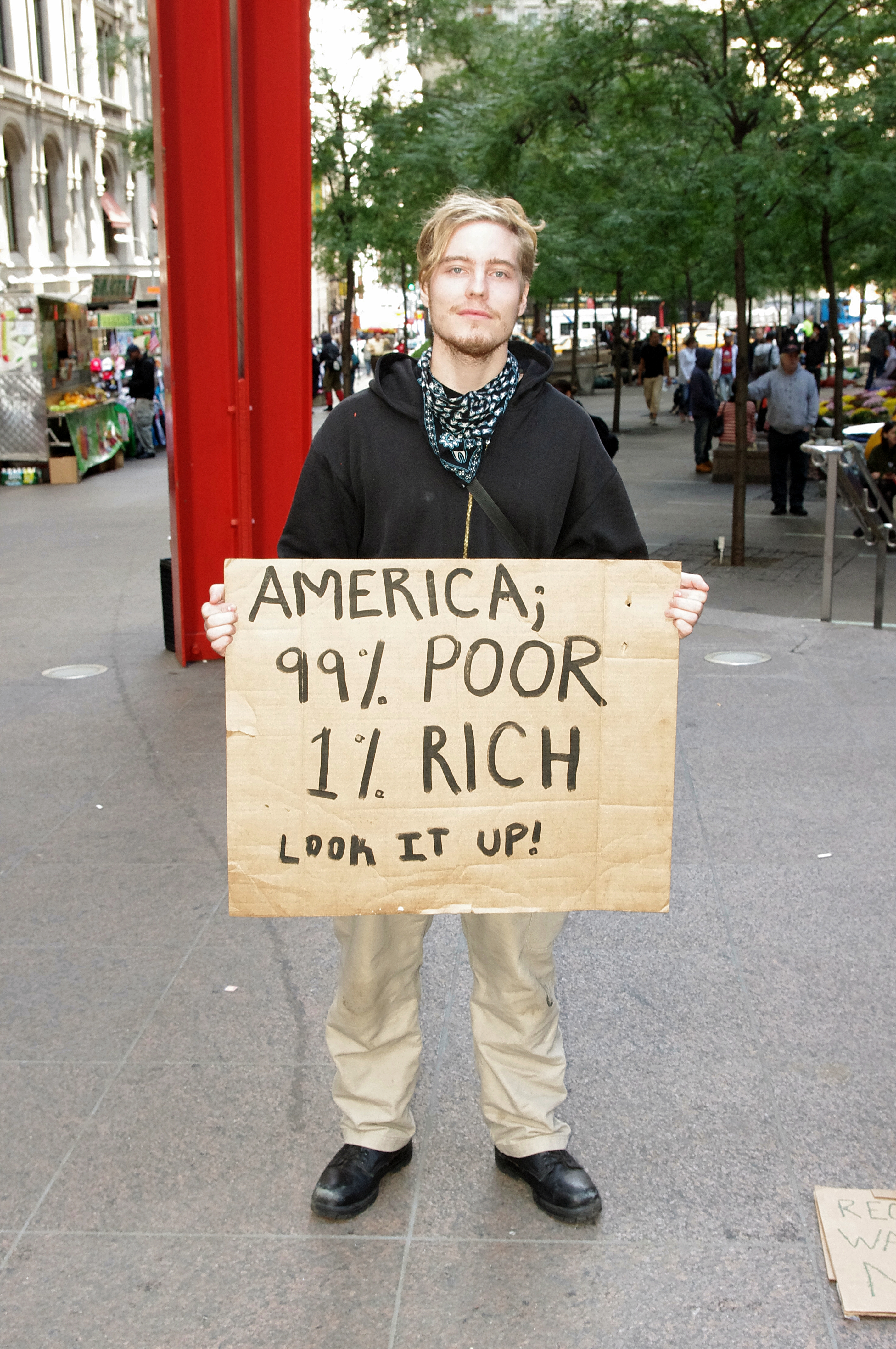 Day 3 of the protest Occupy Wall Street in Manhattan's Zuccotti Park.